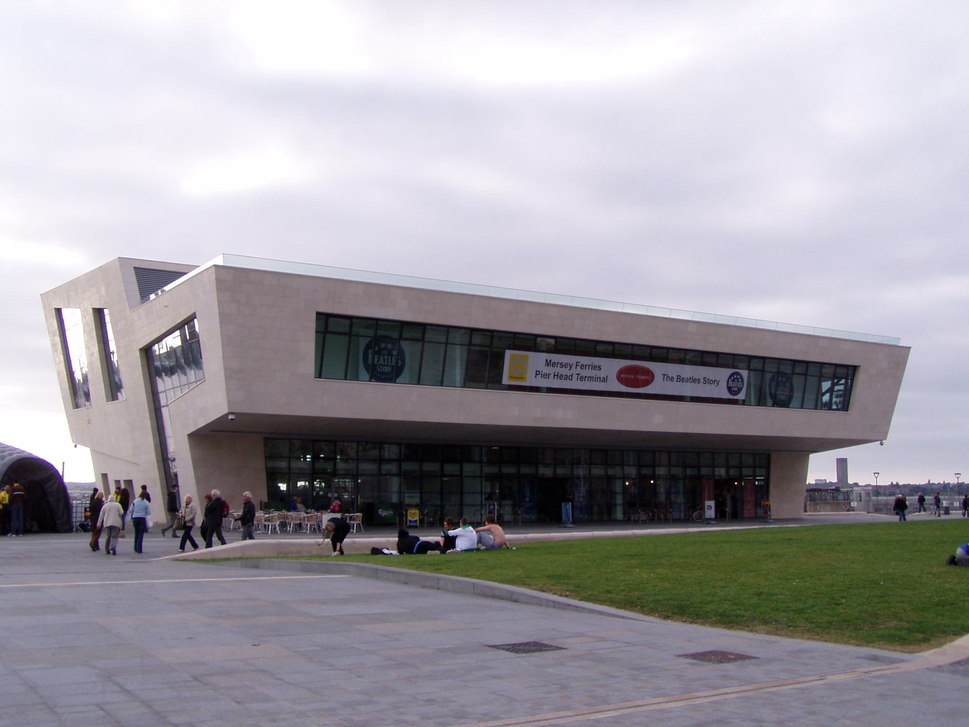 Pier Head Ferry Terminal, Liverpool. Voted worst building of 2009 by architects.